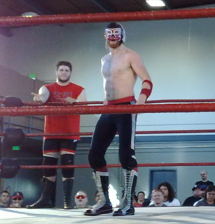 Professional wrestling tag team "Steenerico", Kevin Steen (left) and El Generico (right), at Pro Wrestling Guerrilla's DDT4 Night 2 show on May 18, 2008.